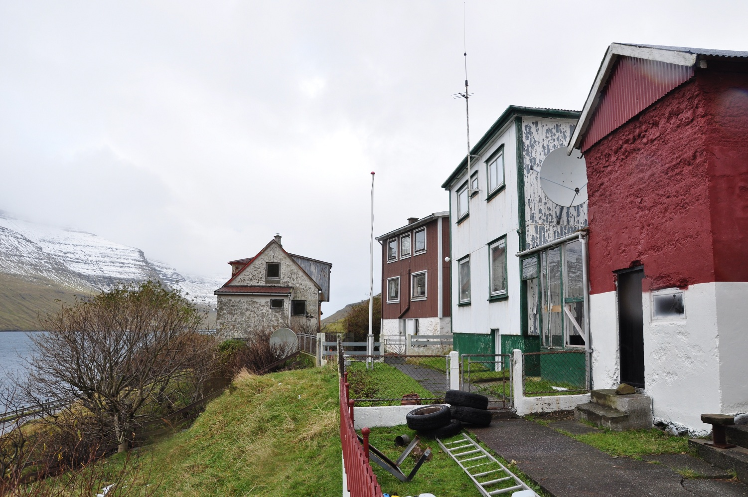 Ánir, a hamlet on the west coast of the island of Borðoy in the Faroe Islands.